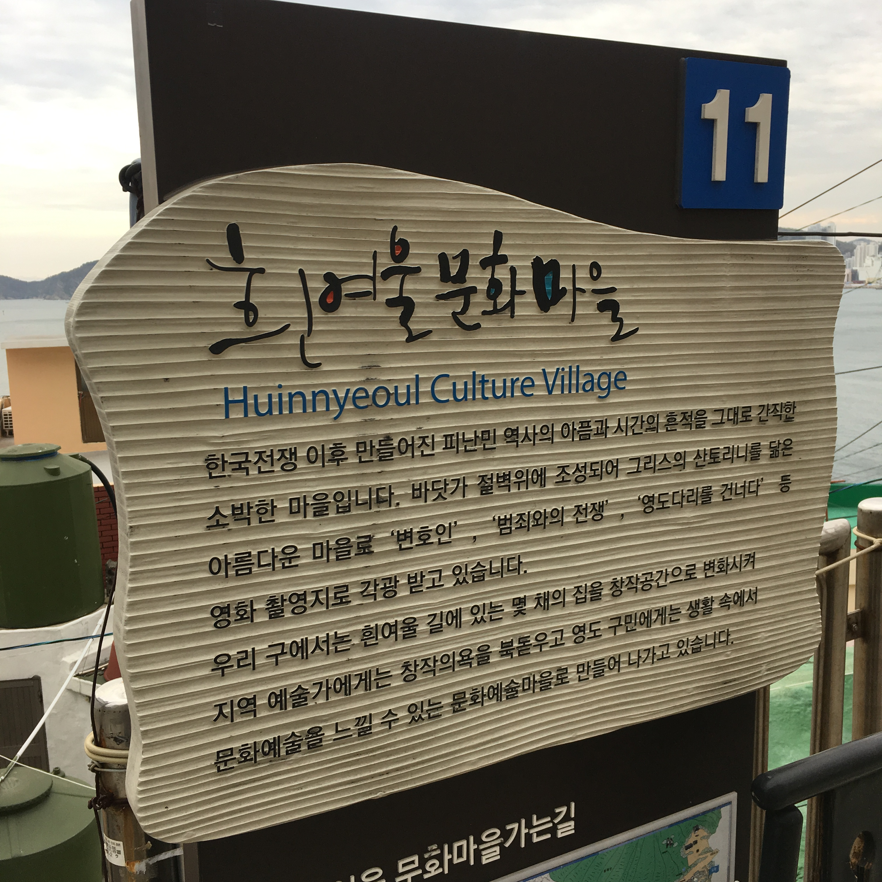 Translation; It is a simple village that retains the traces of the pain and time of the refugee history that was created after the Korean War. This village is a beautiful village resembling Greece's Santorini, built on the cliffs of the sea. This place is attracting attention as a filming place, such as 'Attorneys', 'Nameless Gangster: Rules of the Time' In our district, we are transforming some houses on the huinnyeoul road into creative spaces, encouraging local artists to create their creative minds, and creating a culture and arts village where people can feel culture and art in their daily lives.